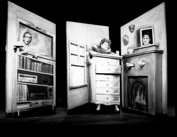 A photograph of the Clichettes performing at some point in the 1980's. The Clichettes are Johanna Householder, Janice Hladki and Louise Garfield.